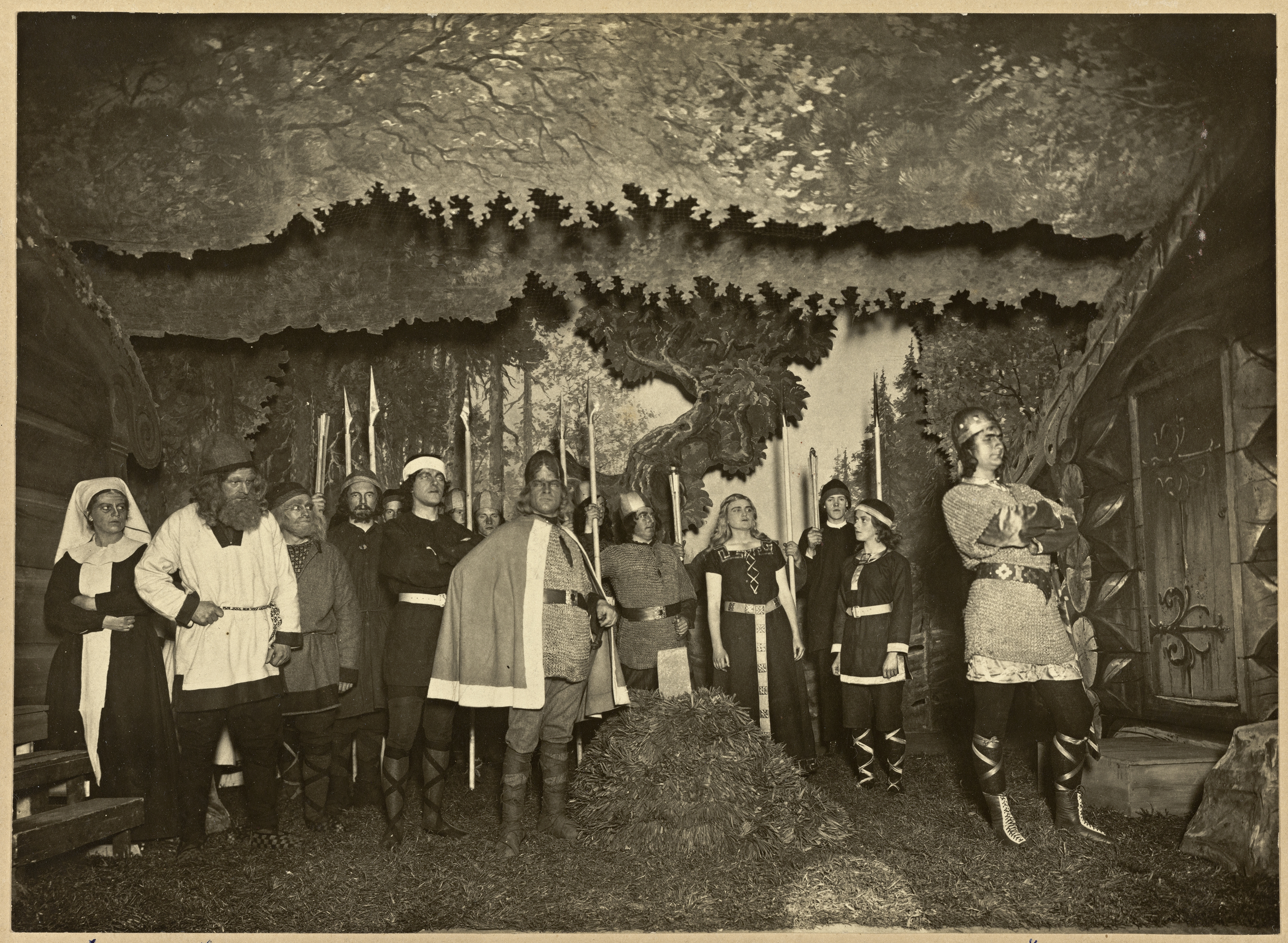 Beskrivelse / Description: "Varg i Veum" ble skrevet av Ivar Mortensson Egnund i 1901. Fra venstre: Ranka Knudsen, Amund Rydland, Trygve Larsen, Bergliot Bruu, Dagny Eng og Karl Holter. Dato / Date: Premiere 1. september 1915 Sted / Place: Norge, Oslo, Det norske teater Fotograf / Photographer: Ingimundur Eyjolfsson (Kristiania) Digital kopi av original / Digital copy of original: sv/hv papirpositiv Eier / Owner Institution: Nasjonalbiblioteket / National Library of Norway Lenke / Link: Bildesignatur / Image Number: blds_07999